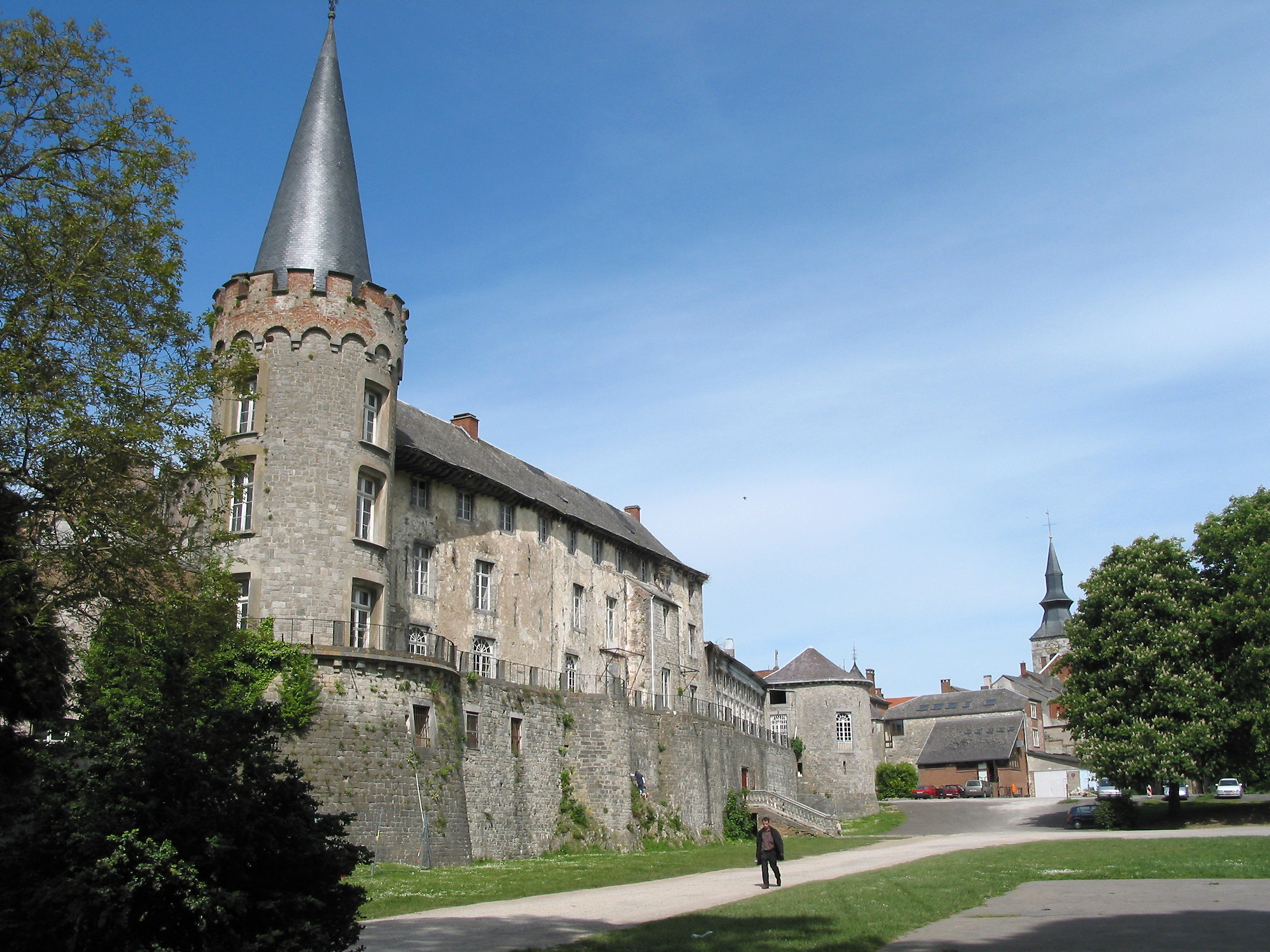 Florennes (Belgium), the castle (XII/XVIII centuries).